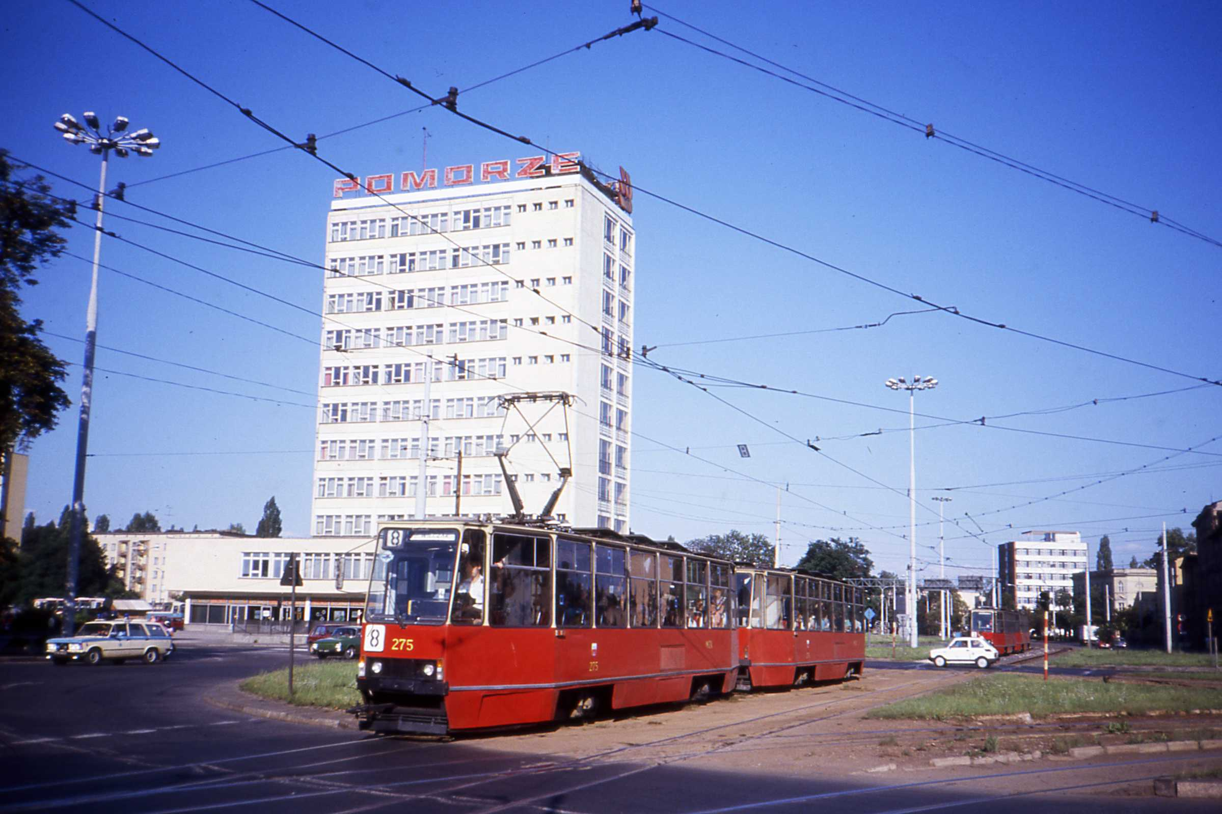 Konstal 805N tra no 275 on route 8, Kapuściska to Wilczak, unchanged from 1988 to date. There is a wonderful Lada estate Police car - MILICIJA - on the left… photography of such vehicles at short range would have been problematic I feel.